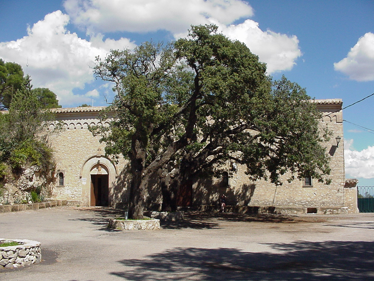 Monastery Sant Honorat in Randa, Mallorca.